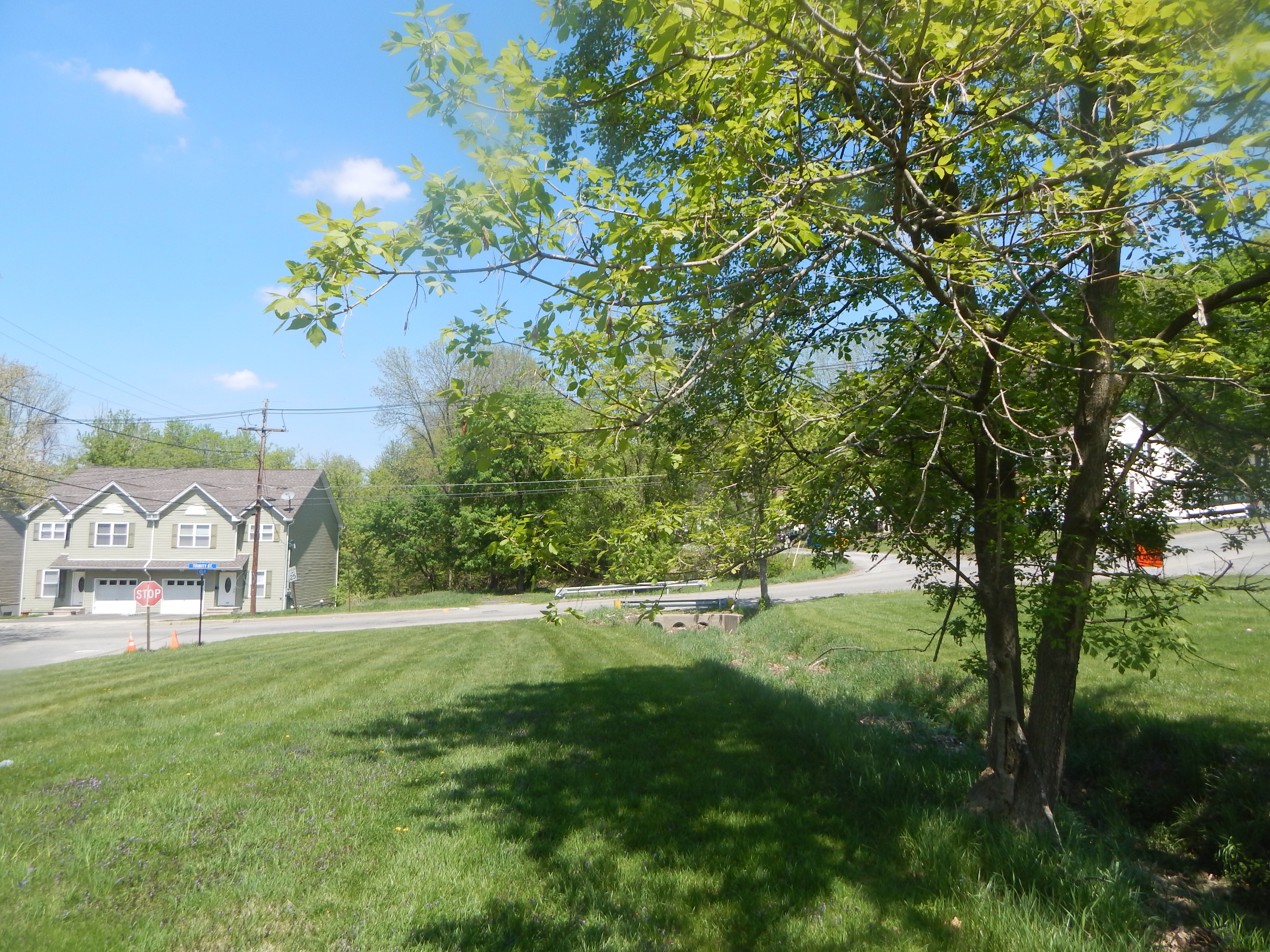 Newtown station site in Newton, New Jersey.